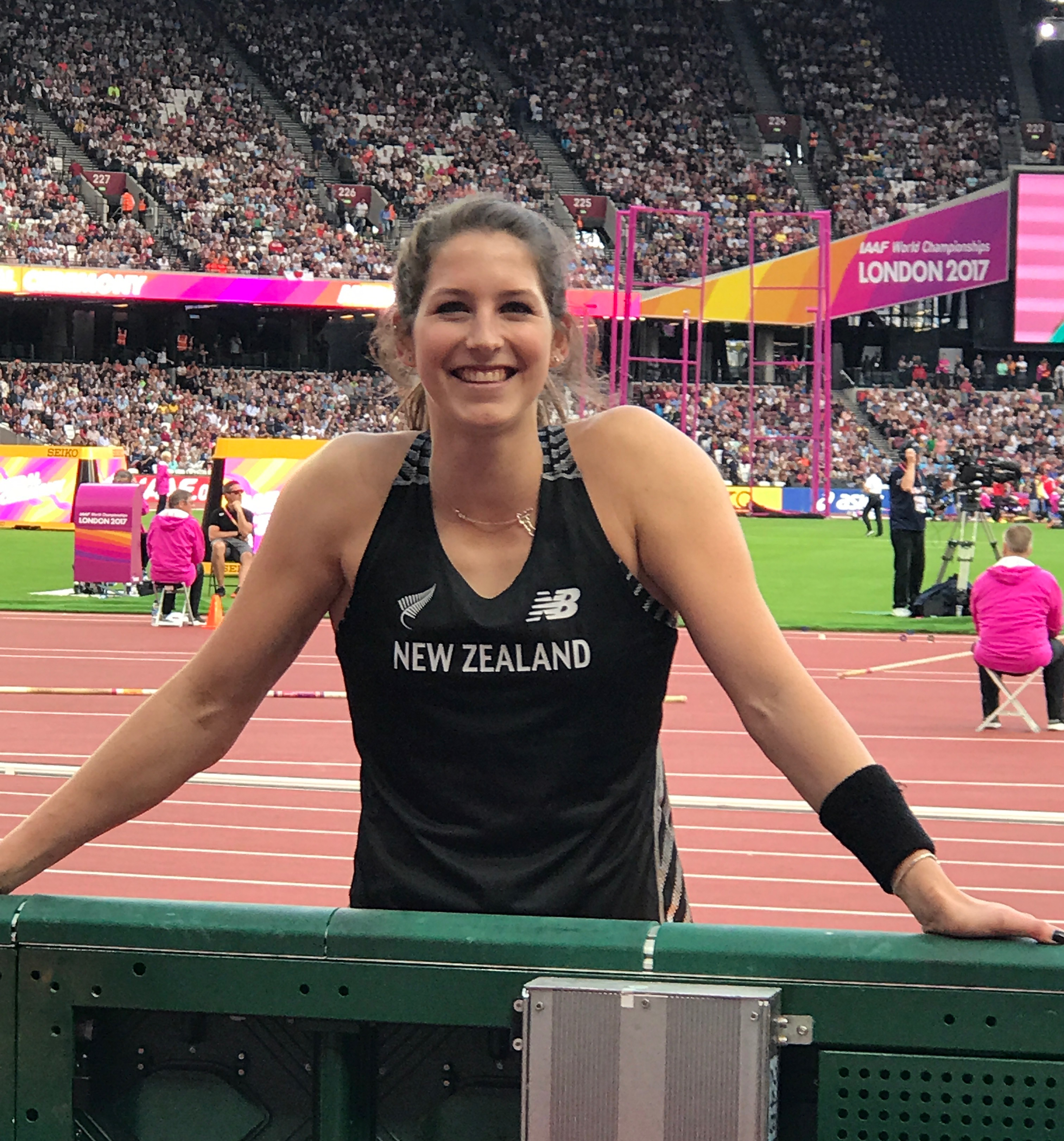 World Athletics Championships, London 2017